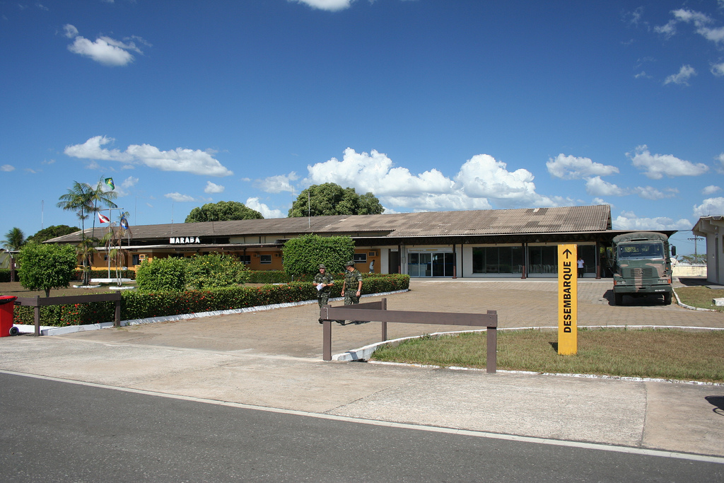 Marabá Airport, in Pará State, Brazil.